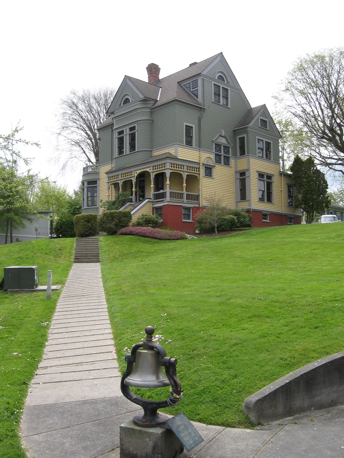 Walker-Ames House, Port Gamble, Washington, built 1888